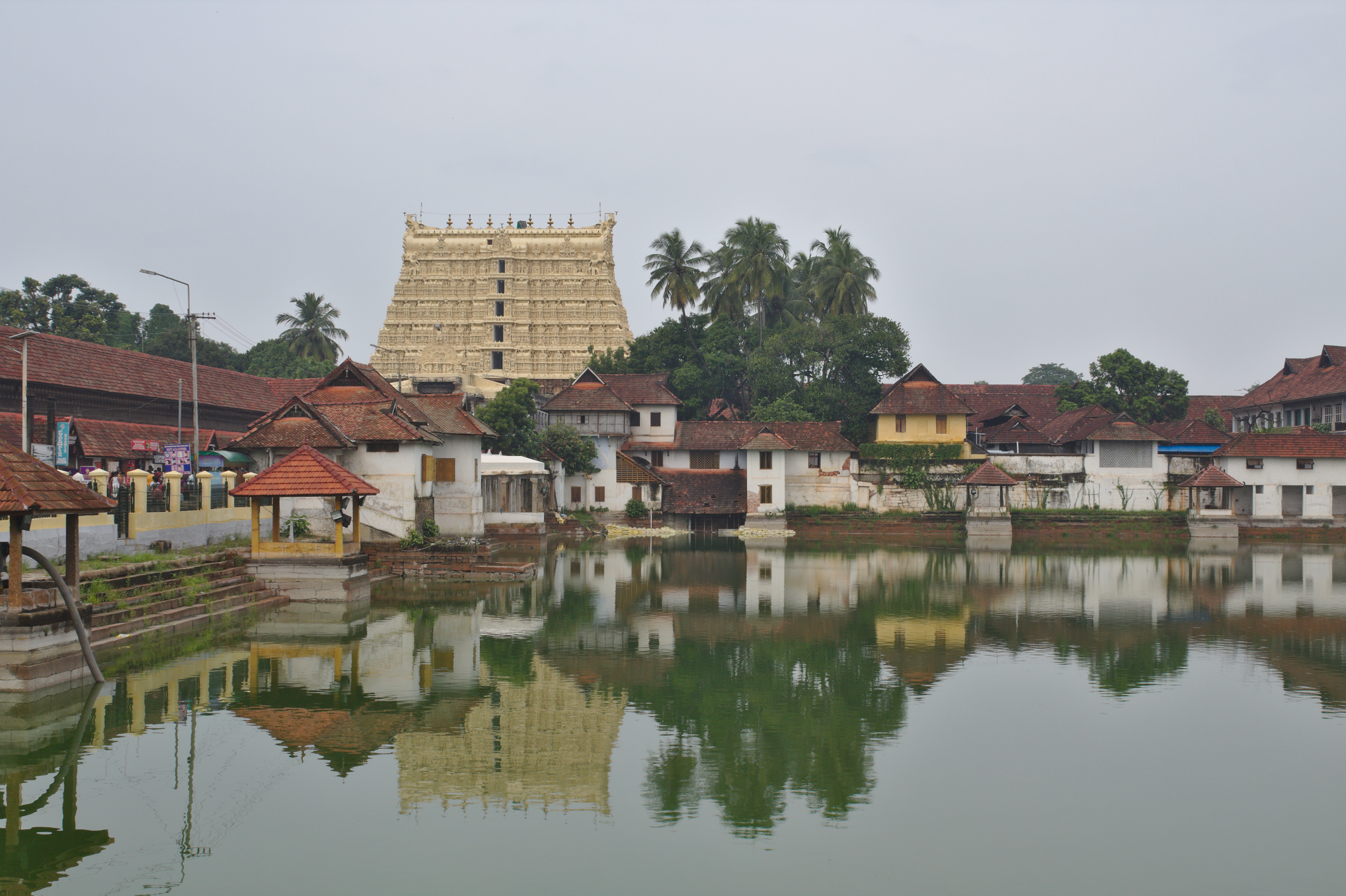 Padmanabhaswamy Temple, Thiruvananthapuram, Kerala, India